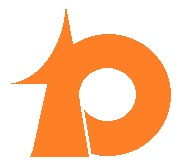 Watarai Mie chapter